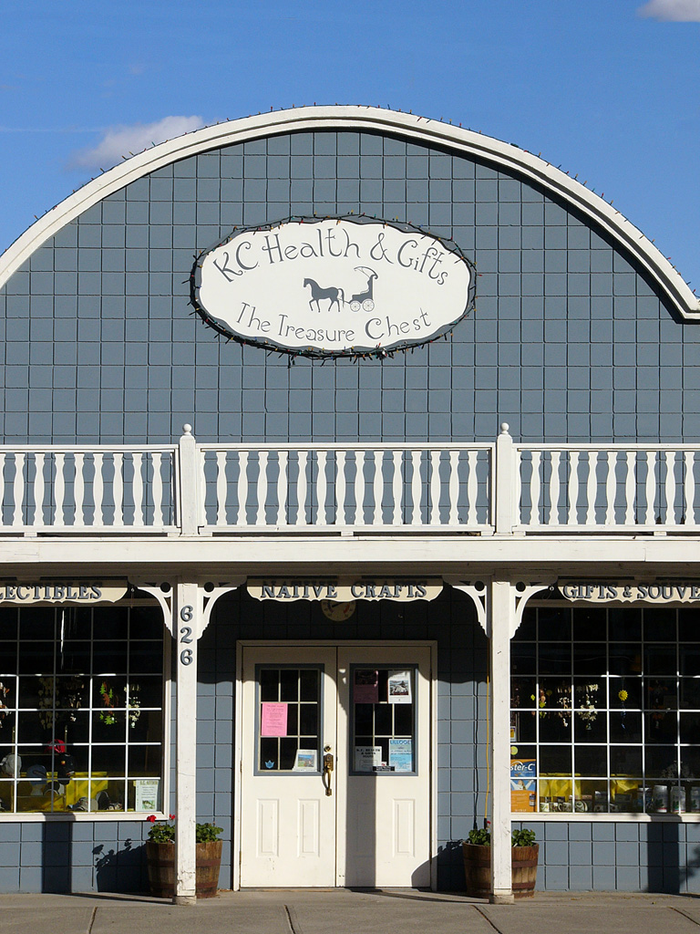 Lillooet, B.C.